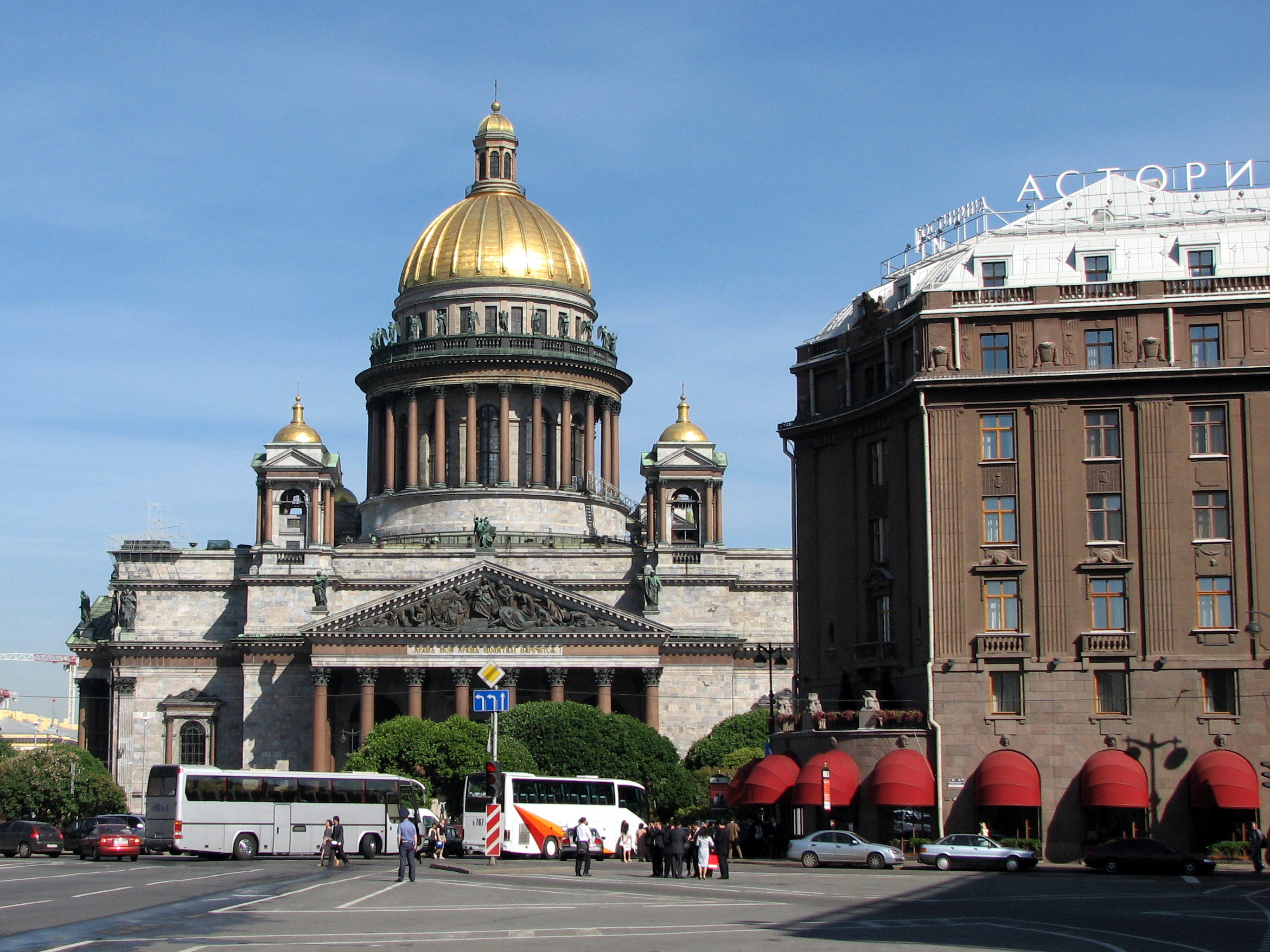 Saint Petersburg. St Isaac's Square. Hotel Astoria and Saint Isaac's Cathedral